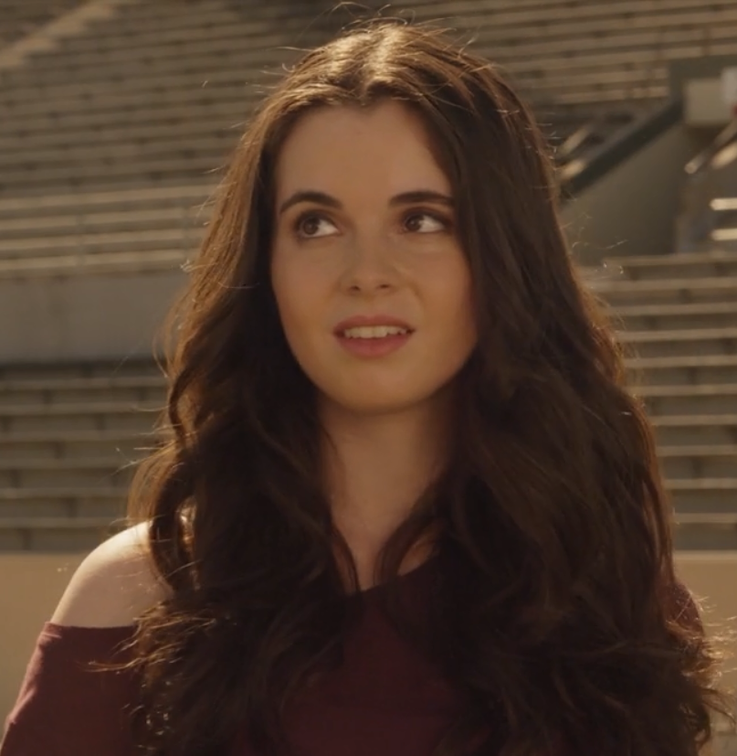 Vanessa Marano at Senior Project series in 2014